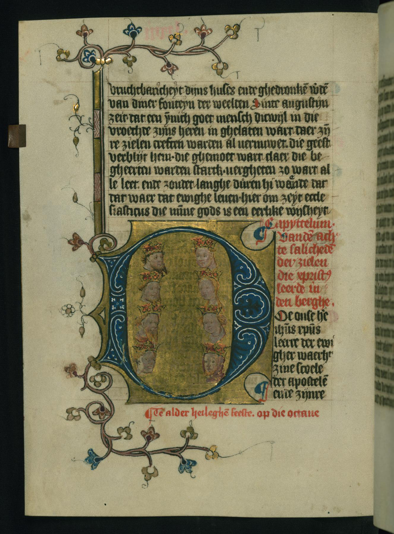 This folio from Walters manuscript W.171 depicts the eight Beatitudes.